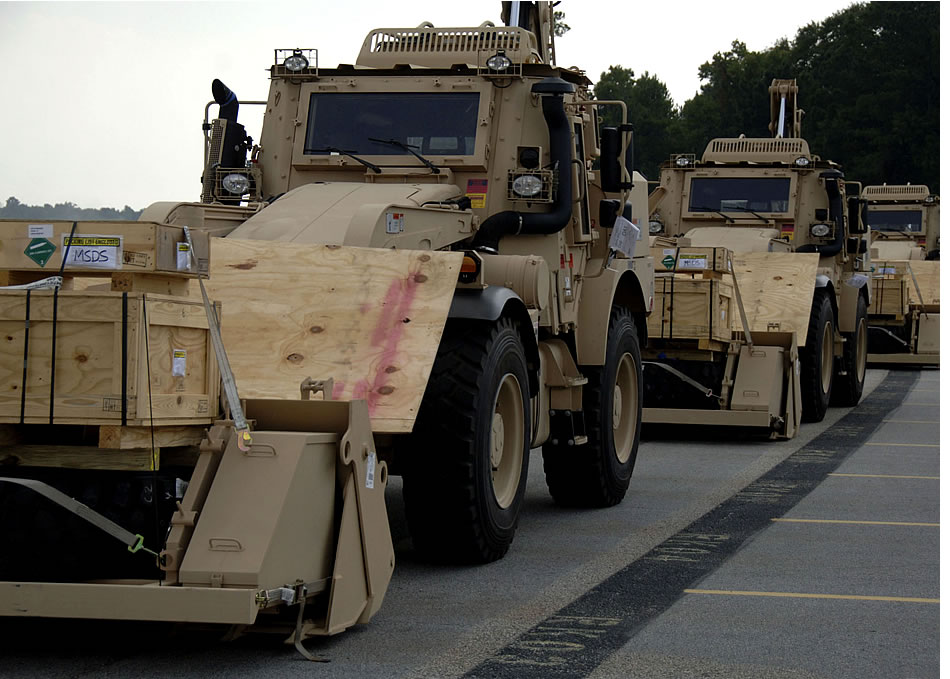 JCB High Mobility Engineer Excavator (HMEE). Army High Mobility Engineer Excavators are moved into position prior to being loaded onto a C-5 Galaxy Sept. 29 at Charleston Air Force Base, S.C. The HMEEs will be transported to forward deployed locations to assist soldiers and contractors in hostile environments.